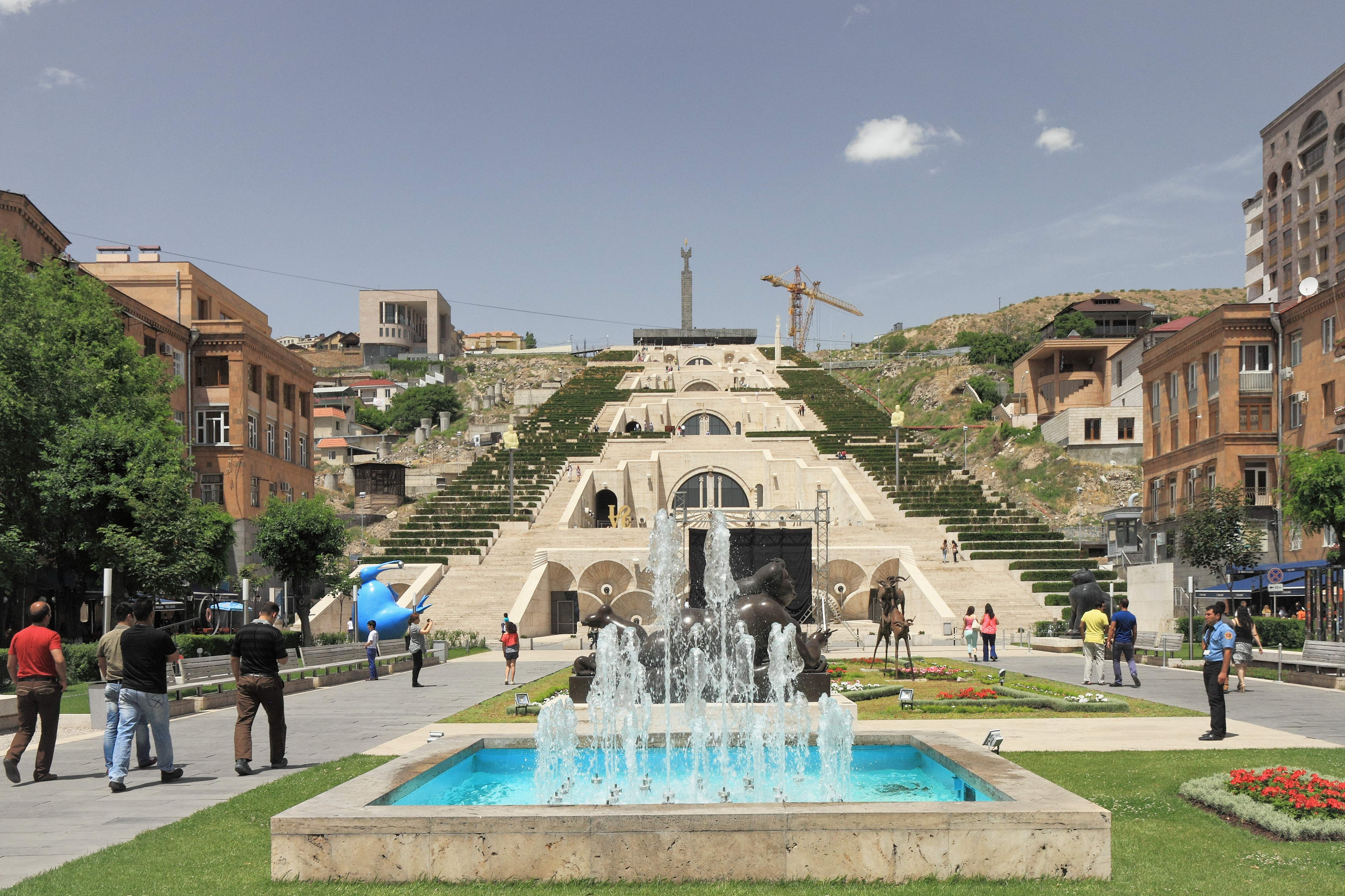 Park on the way to Cascade. Yerevan, Armenia.